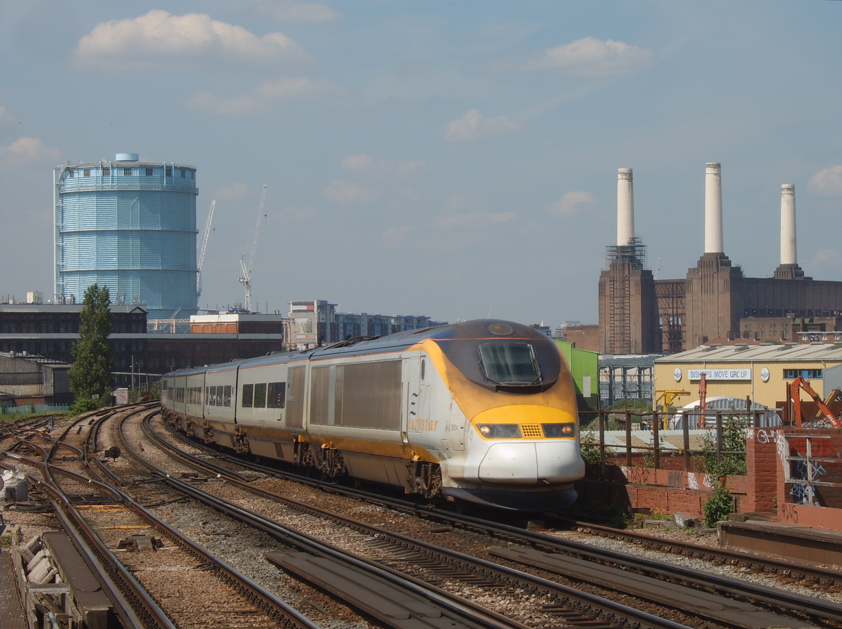 Passing Factory Junction on the main line from Victoria through to Kent is a Eurostar service headed by power car Class 373, no. 3104 on 2 June 2007.